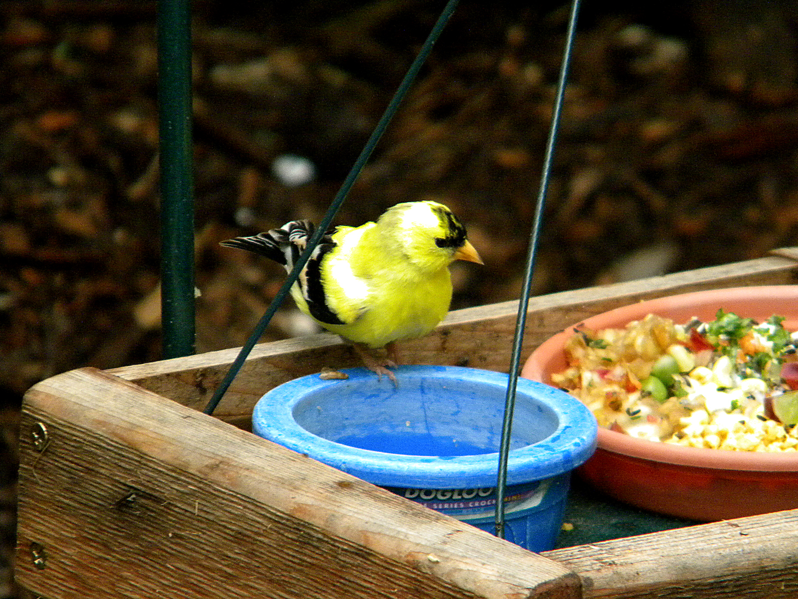 Carduelis tristis, commonly known as the American Robin photographed May 21, 2010 in the Songbird Aviary at the Columbus Zoo, Powell, Ohio, United States.